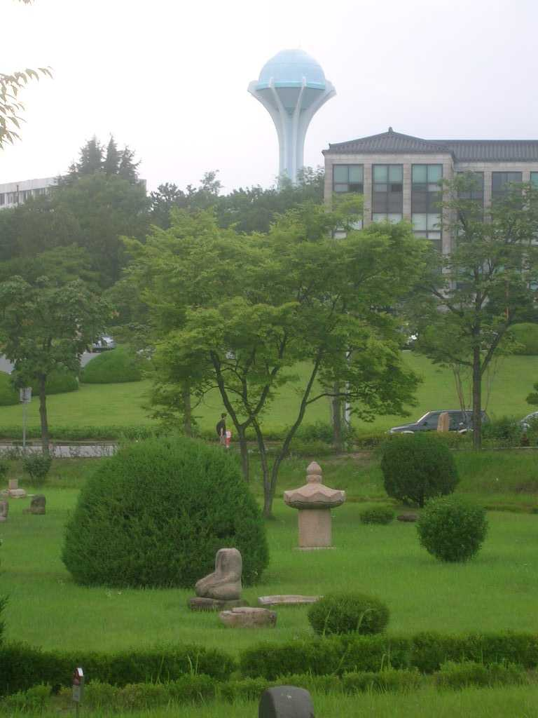 Campus of Kyungpook National University, Daegu, South Korea. Taken by User:Visviva.